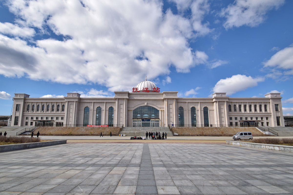 Fuyuan Railway Station, Qianjinzhen-Fuyuan Railway (easternmost passenger railway station in China)